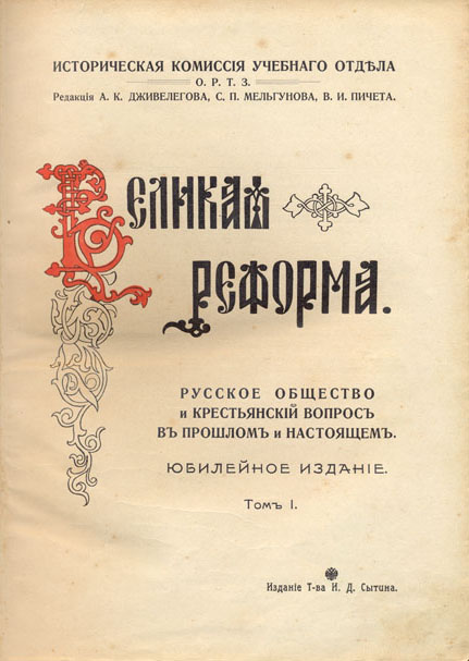 "The Great Reform", title-page